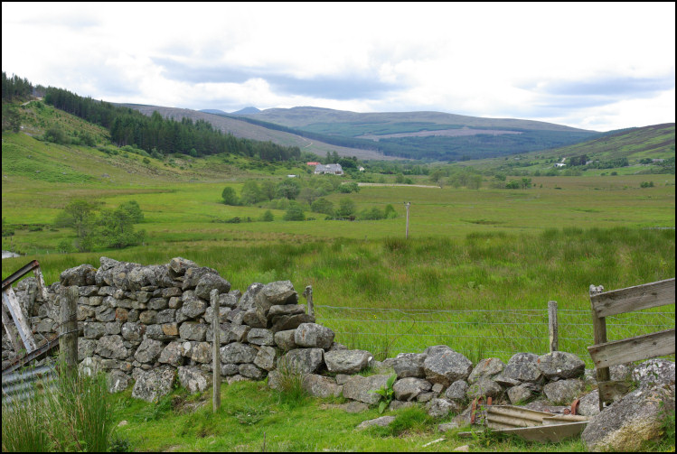 Scenery Photo